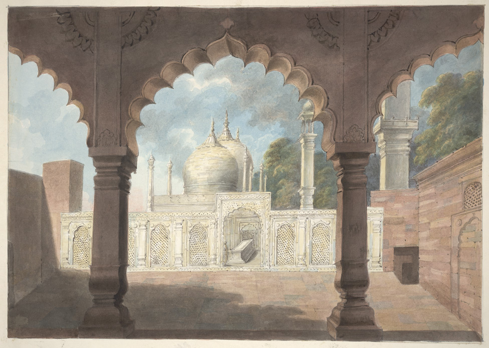 Watercolour of tomb of Shah Alam from 'Views by Seeta Ram from Gheen to Delhi Vol. VI' produced for Lord Moira, afterwards the Marquess of Hastings, by Sita Ram between 1814-15. Marquess of Hastings, the Governor-General of Bengal and the Commander-in-Chief (r. 1813-23), was accompanied by artist Sita Ram (flourished c.1810-22) to illustrate his journey from Calcutta to Delhi between 1814-15. Idealised view of the tomb of the Emperor Shah 'Alam within its marble arcade, and beyond it the Moti Masjid built by Bahadur Shah I, at the 'dargah' of Qutb-Sahib at Mahrauli. Mahrauli, a village near Delhi, is the site of dargah (shrine) of Qutb-Sahib (d.1235) and the location of several tombs of the Kings of Delhi including Muhammad Akbar II (d.1837), Shah Alam II (d.1806), and Bahadur Shah I (d.1712). Inscribed below: 'Tomb of the Emperor Shaw Allum.'